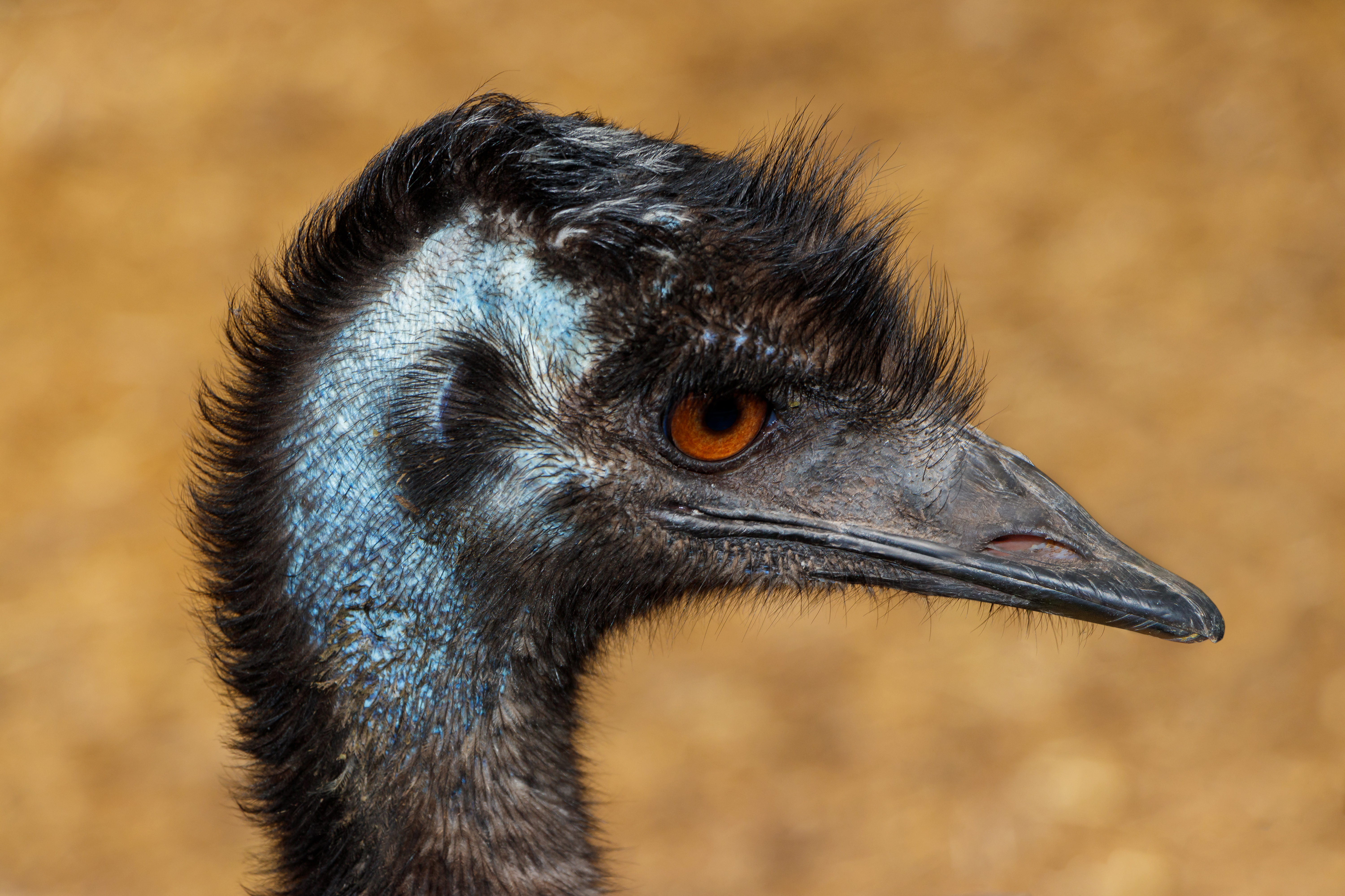 Dromaius novaehollandiae (Latham, 1790), Emu; Maroparque, Breña Alta, La Palma, Canary Islands, Spain.